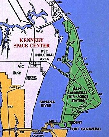 a sreenshot of Image:Merritt Island.jpg